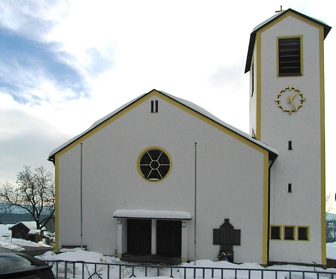 Lindberg, northern facade of St Joseph Parish Church.